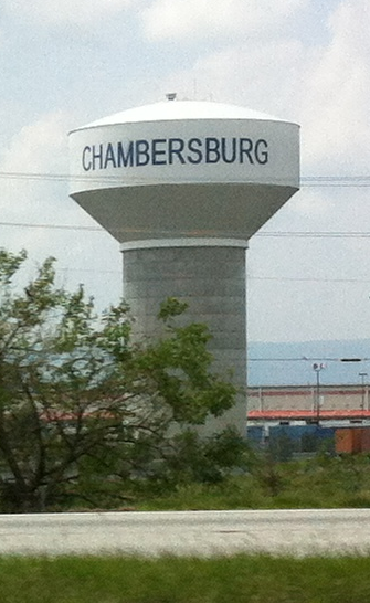 Water tower in Chambersburg, PA, located west side of I-81